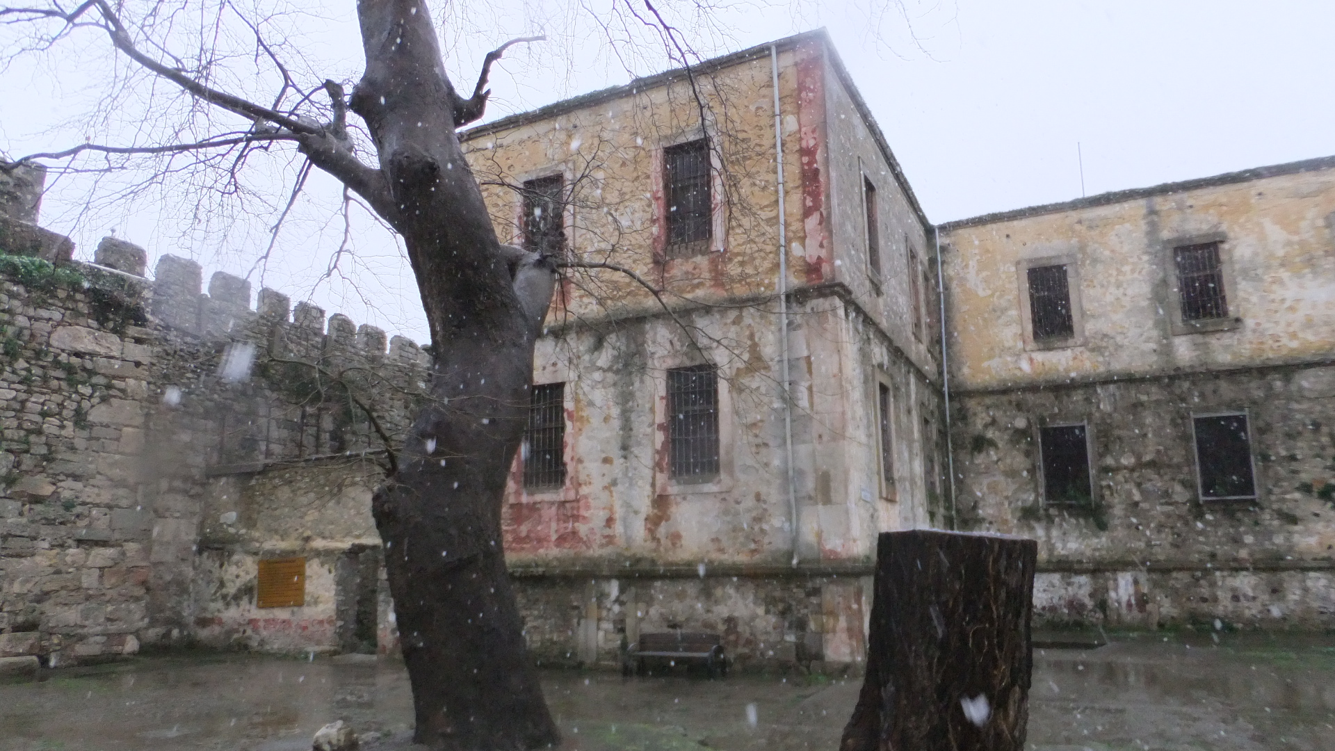 Sinop Fortress Prison, Turkey (currently museum)